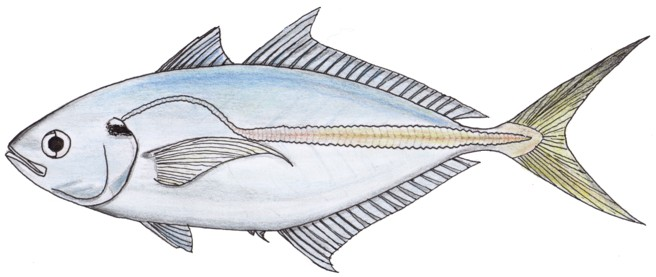 A self made hand drwn and coloured picture of the shrimp scad, Alepes Djedaba. Based on Carpenter et al 2002 and Fishbase photos.